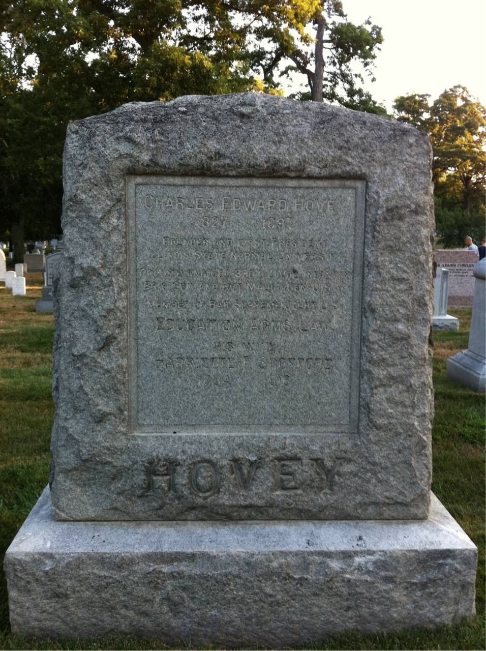 Grave of Charles Edward Hovey at Arlington National Cemetery